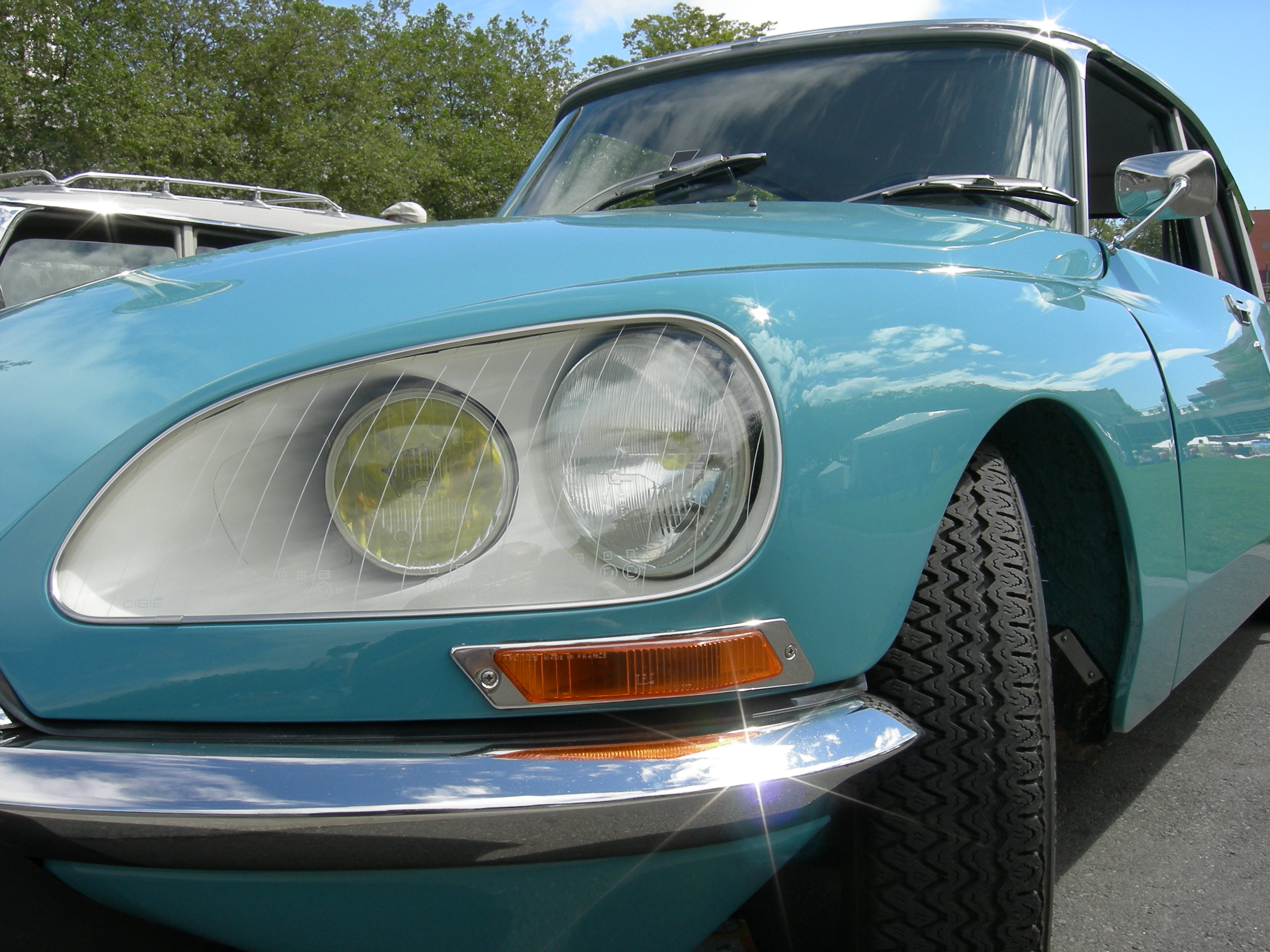 Left headlight of 1974 Citroën DS, photographed at the Bastille Day celebration that is part of the Festál series of festivals at Seattle Center, Seattle, Washington. The headlights on the Citroëns of this era were unusual, in that they would swivel when turning or when accelerating sharply.